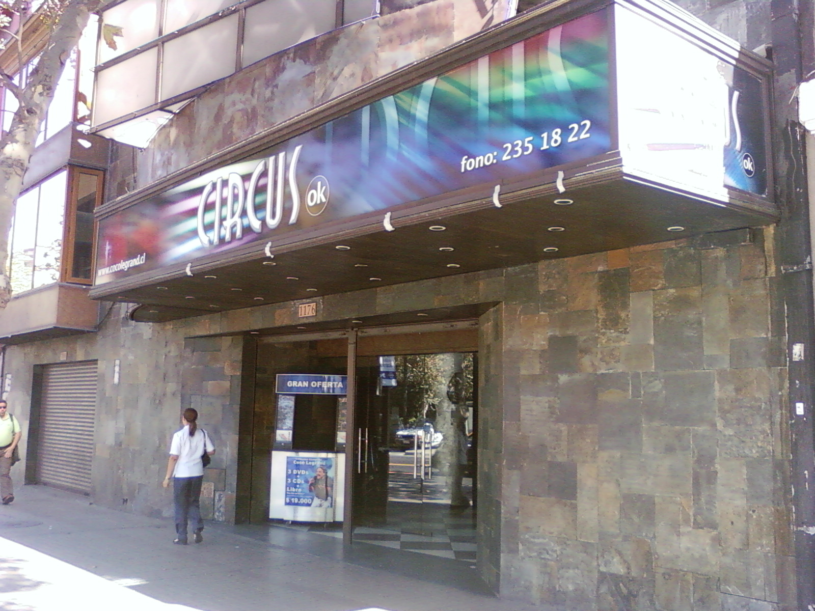 Teatro Circus Ok, propiedad del humorista Coco Legrand, en Providencia, Santiago de Chile.